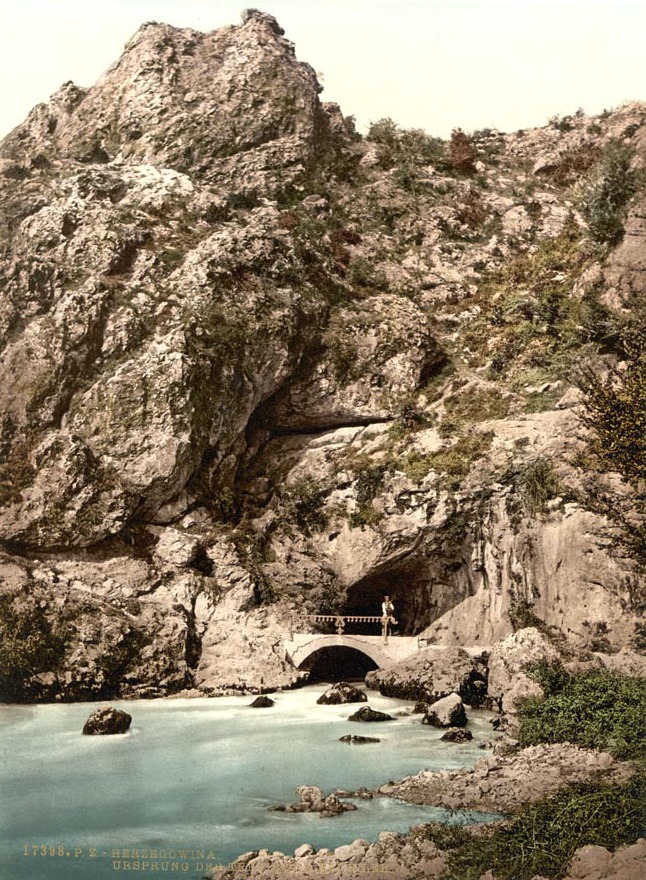 Trebinjica (i.e. Trebisnjica) River the source Herzegowina Austro-Hungary